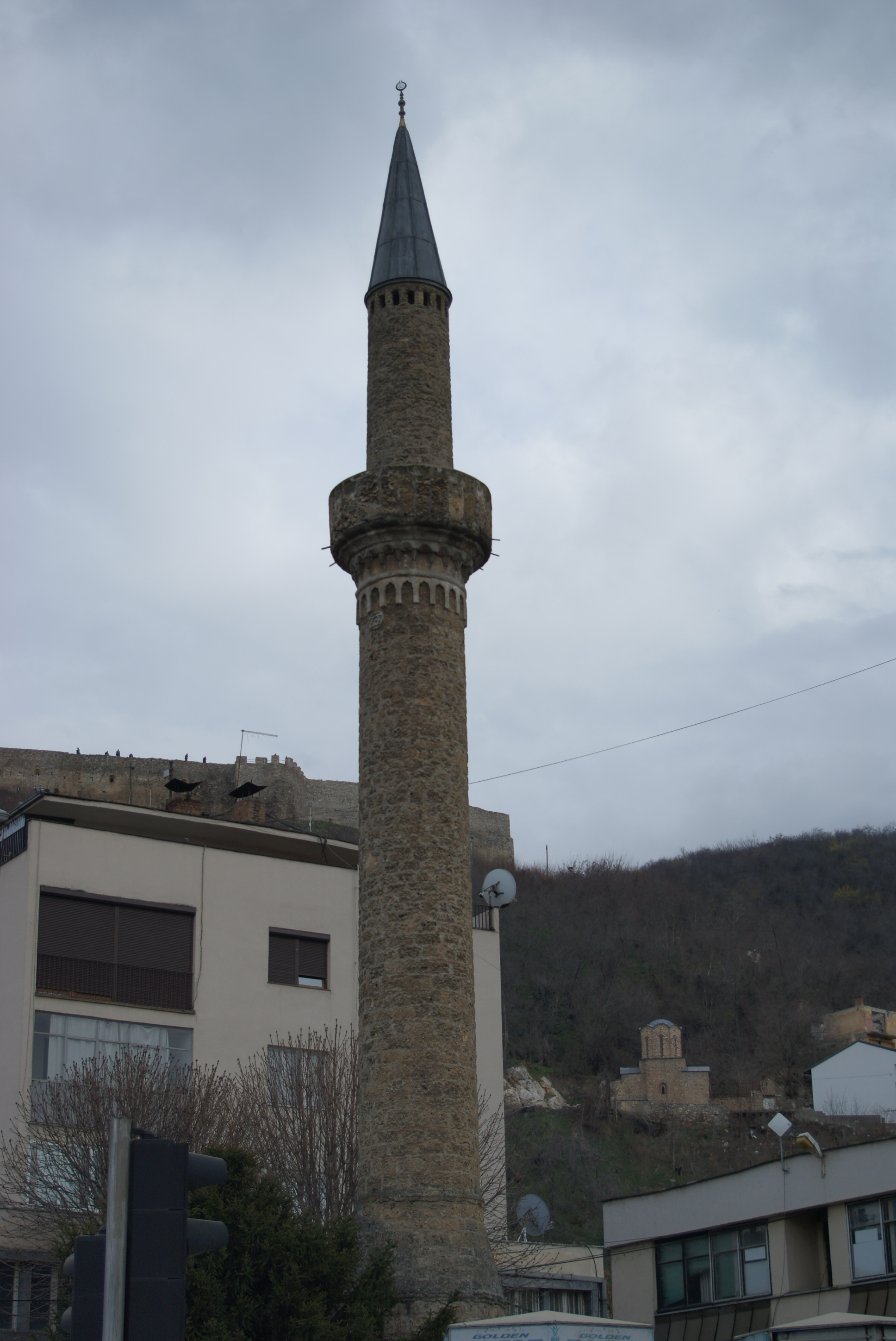 Xhamia e Arastes